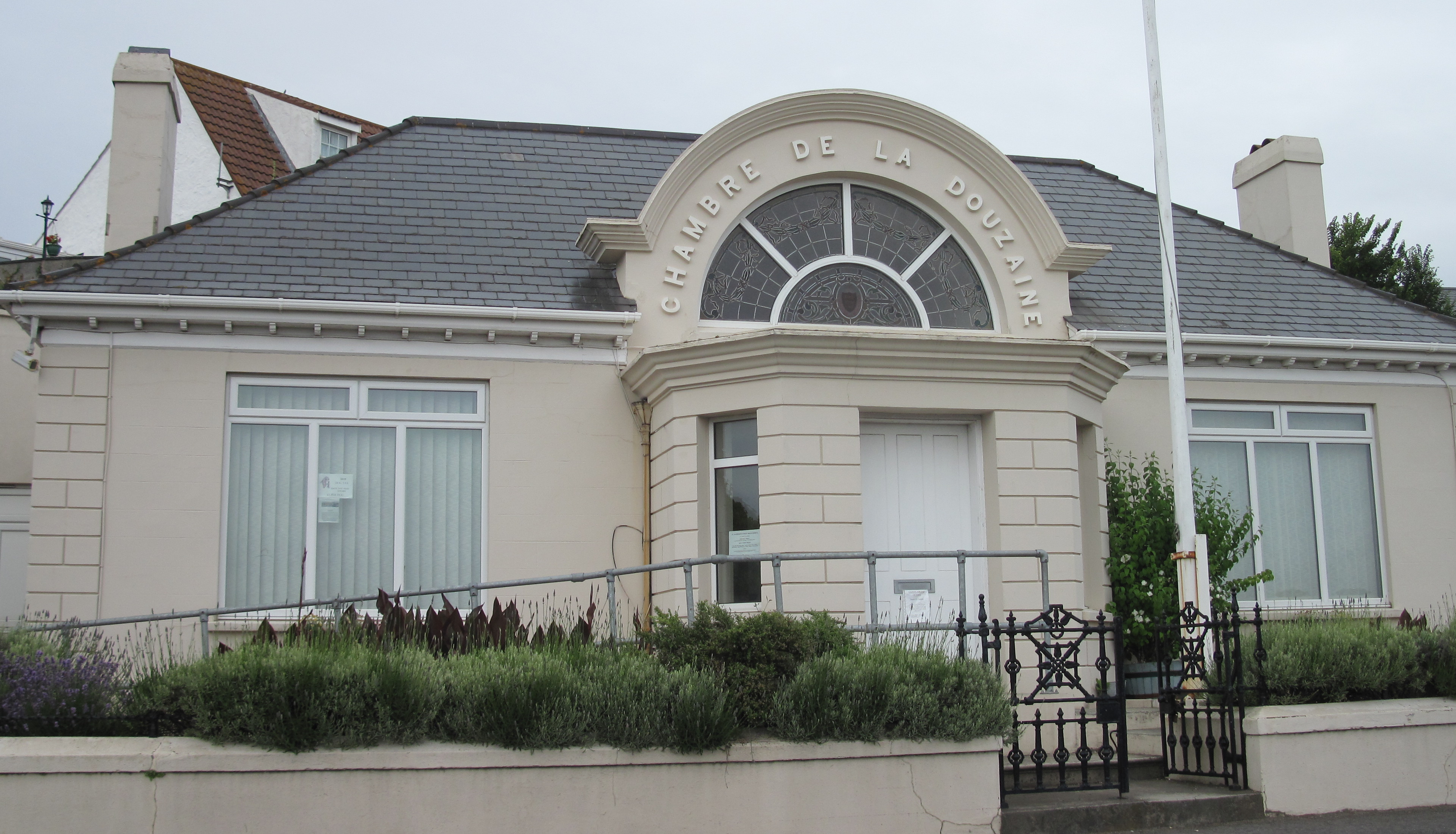 Guernsey, 2 July 2010: Douzaine room (town hall)